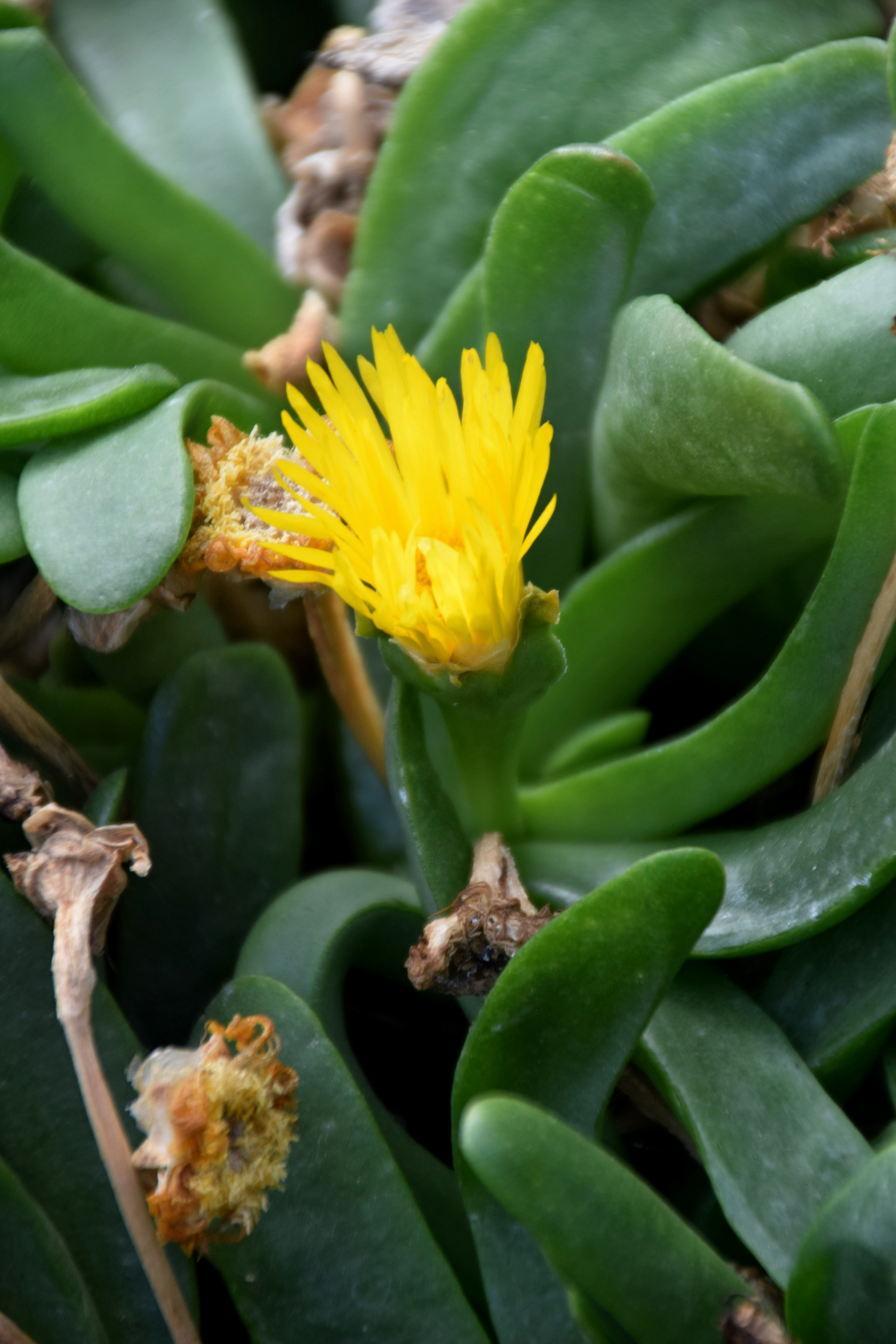 Some specimens of Glottiphyllum (likely G.longum) in Tropengewächshäuser des Botanischen Gartens, Hamburg